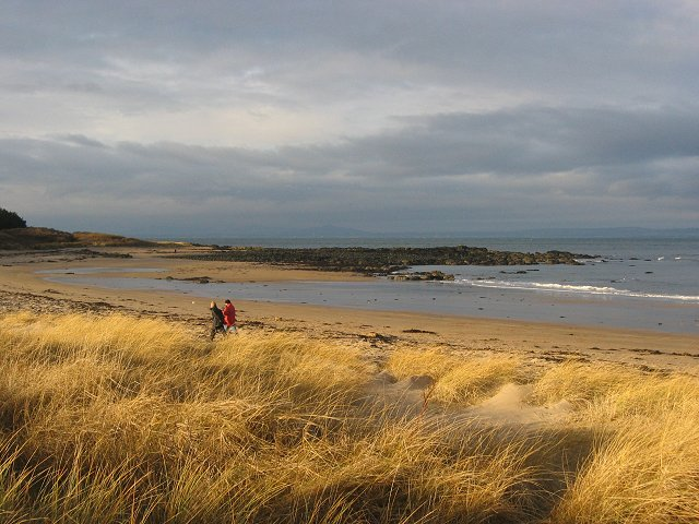 Yellowcraigs Beach. View west along the beach.